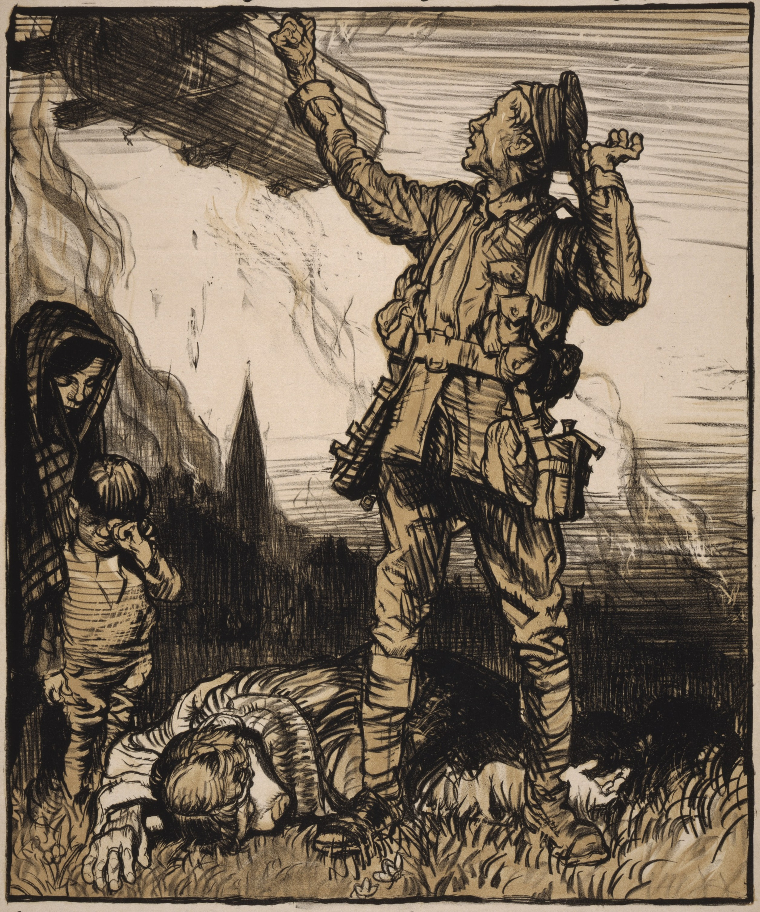 Title: The zeppelin raids: the vow of vengeance. Drawn for "The Daily Chronicle" by Frank Brangwyn A.R.A Abstract: Poster showing a soldier shaking his fist at a zeppelin following bombing. Physical description: 1 print (poster) : lithograph, color ; 76 x 51 cm. Notes: designed by Frank Brangwyn, A.R.A. ; printed by The Avenue Press, Ltd., Bouverie St., London, E.C.; Title from item.